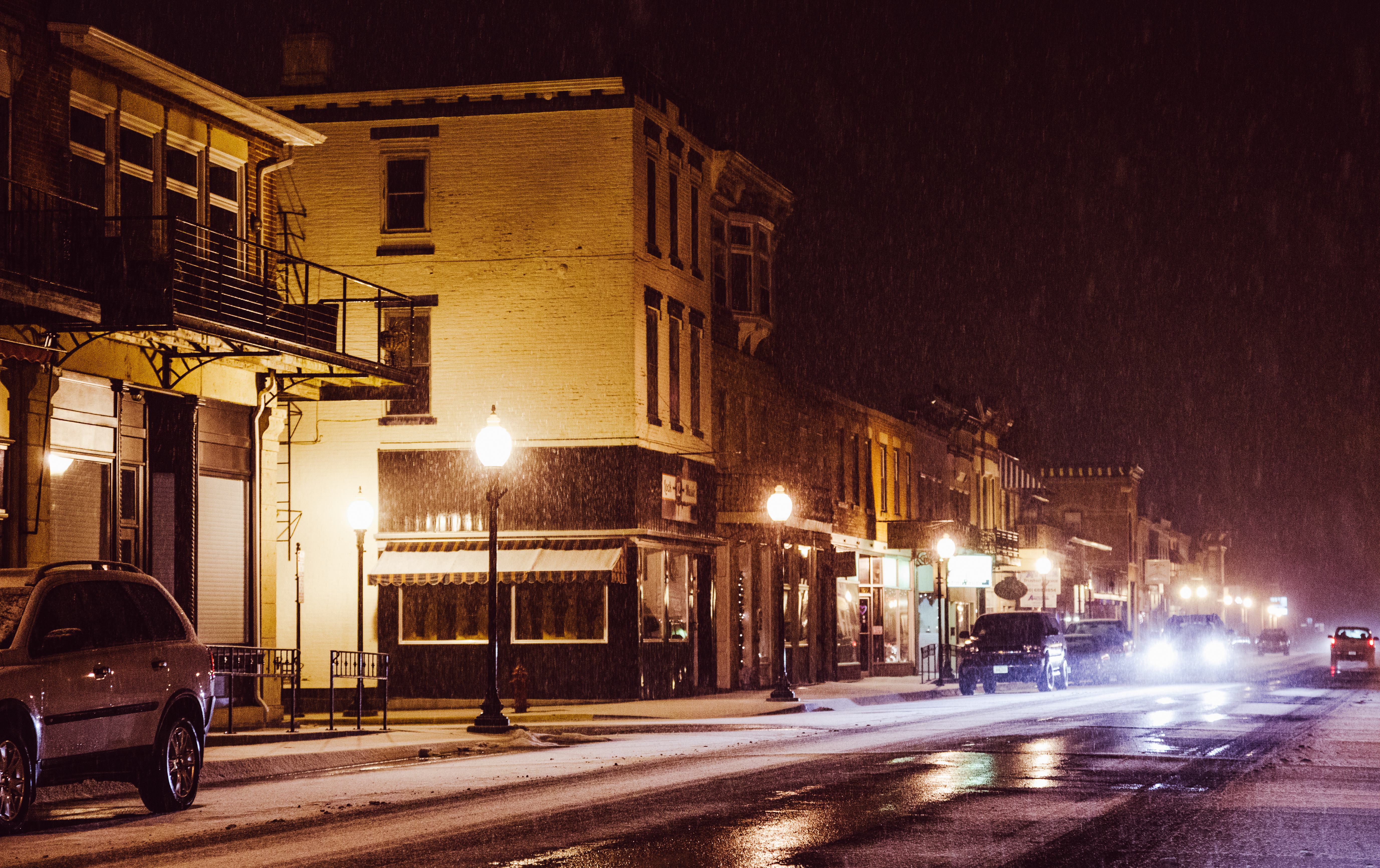 Downtown Bellevue, Iowa at night during a snow storm. 25 January 2016.